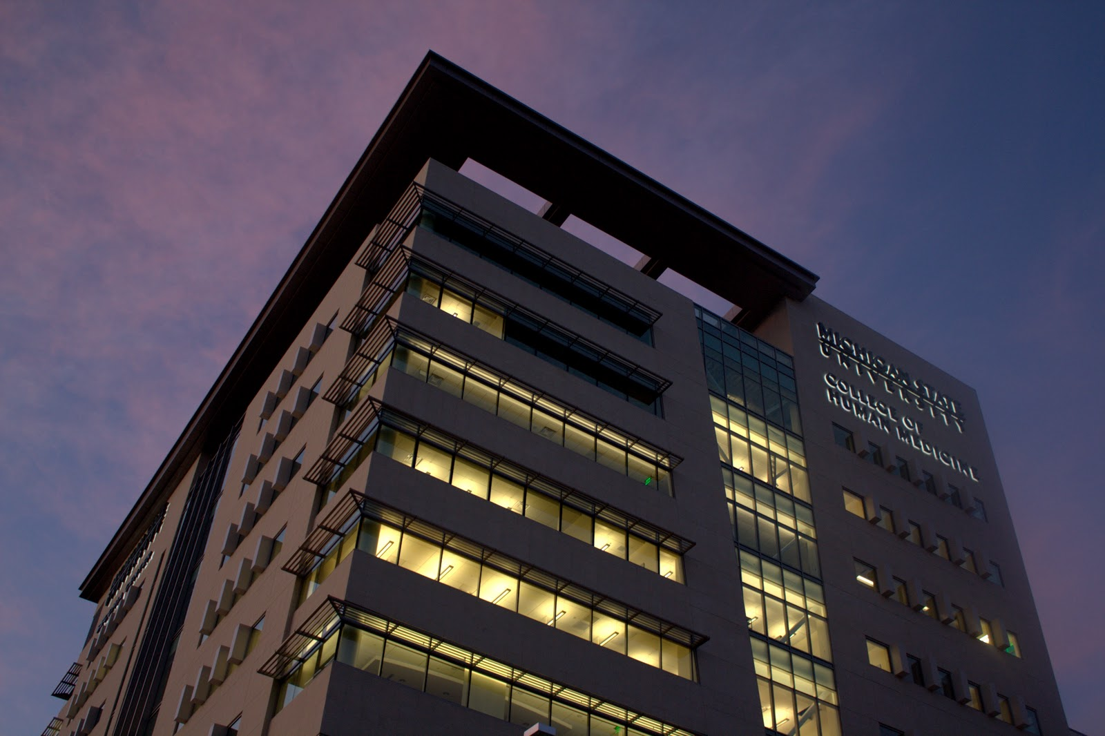 Michigan State University College of Human Medicine Secchia Center